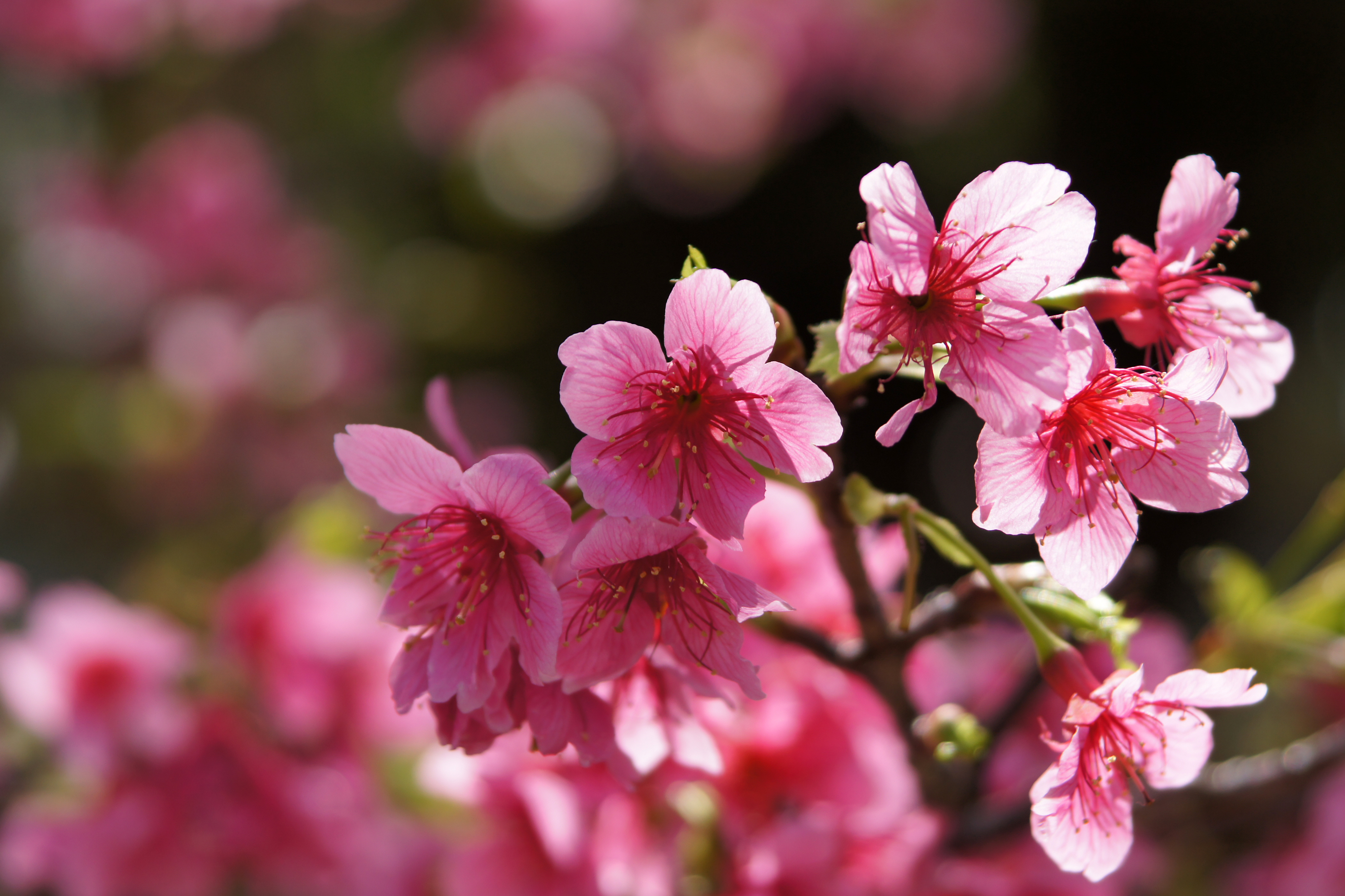 Yogi Park, Naha, Okinawa prefecture, Japan